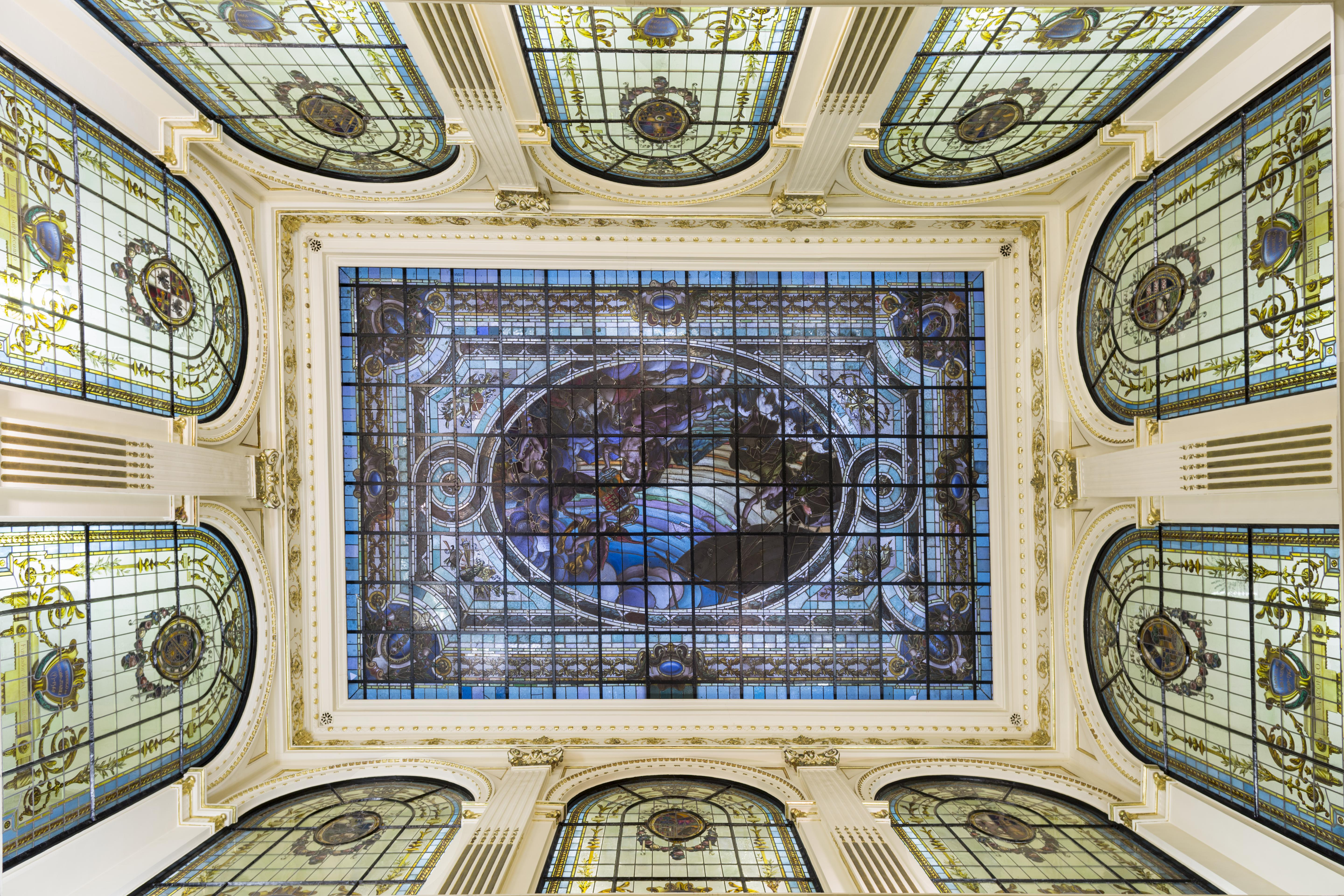 Stained glass windows by Mauméjean brothers